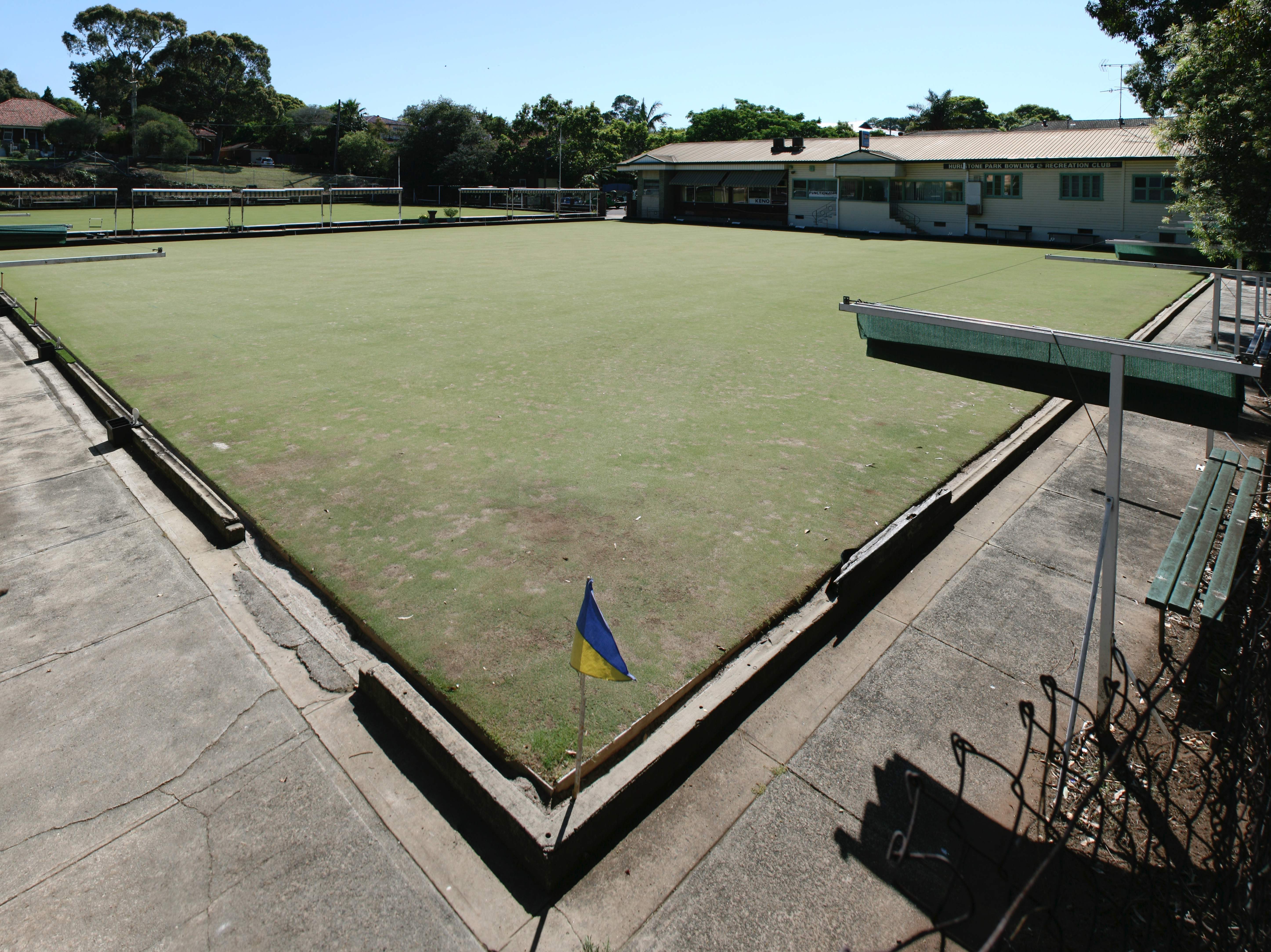 Hurlstone Park Bowling and Recreation Club, located in Hurlstone Park, New South Wales (NSW), Australia.